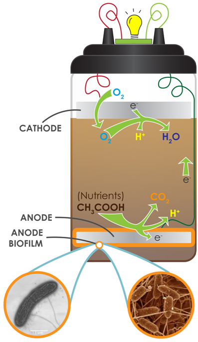 A diagram of a Soil-based MFC